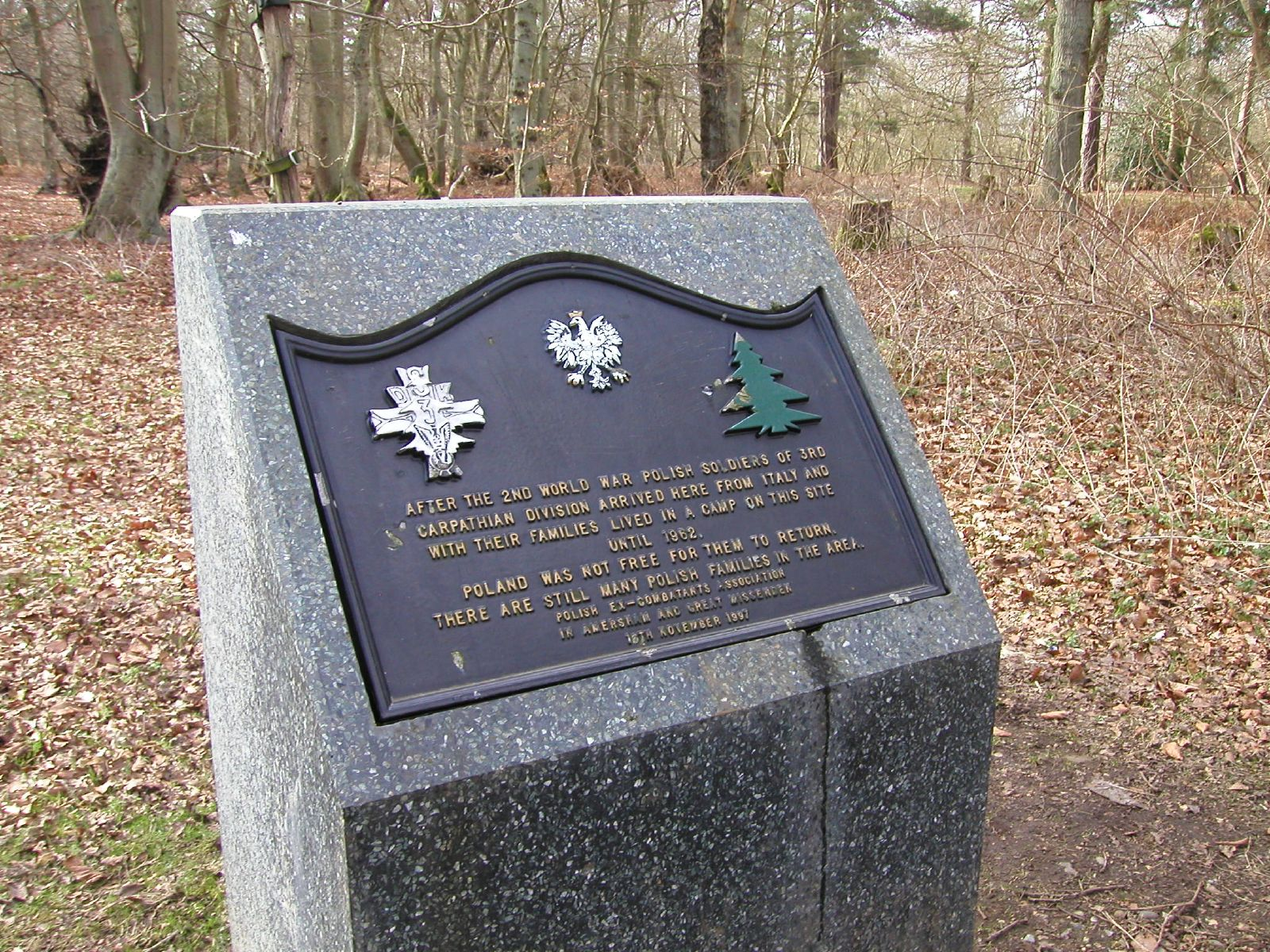 Hodgemoor Polish Camp plaque. The text reads: "After the 2nd World War Polish soldiers of 3rd Carpathian Division arrived here from Italy and with their families lived in a camp on this site until 1962. Poland was not free for them to return. There are still many Polish families in the area."